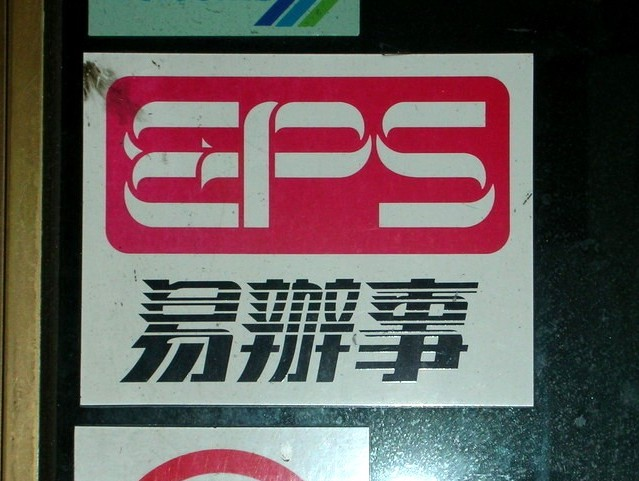 A sticker of EPS's logo, outside a restaurant at Wanchai, Hong Kong.